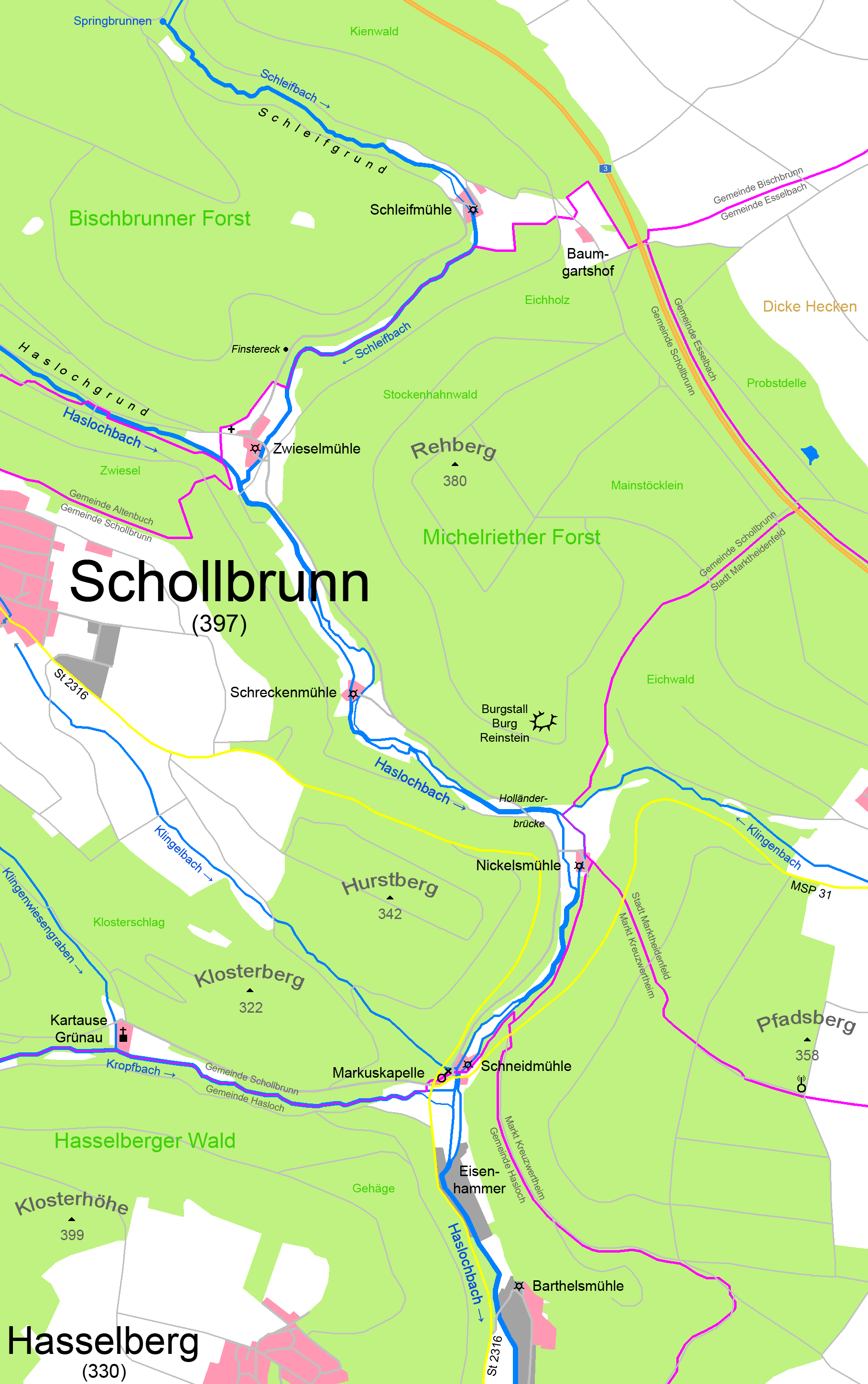 Map of the Mühlental (Mill valley) near Hasloch on the edge of south of the Spessart in Bavaria Settlement area Industrial area Forest Grassland, Meadow Body of water Chapel Monastery Church ruin Watermill castle site Main street Side street Agricultural road and Forest road Municipality border spring Mountain 399 Above sea level Fink Field name Radio mast